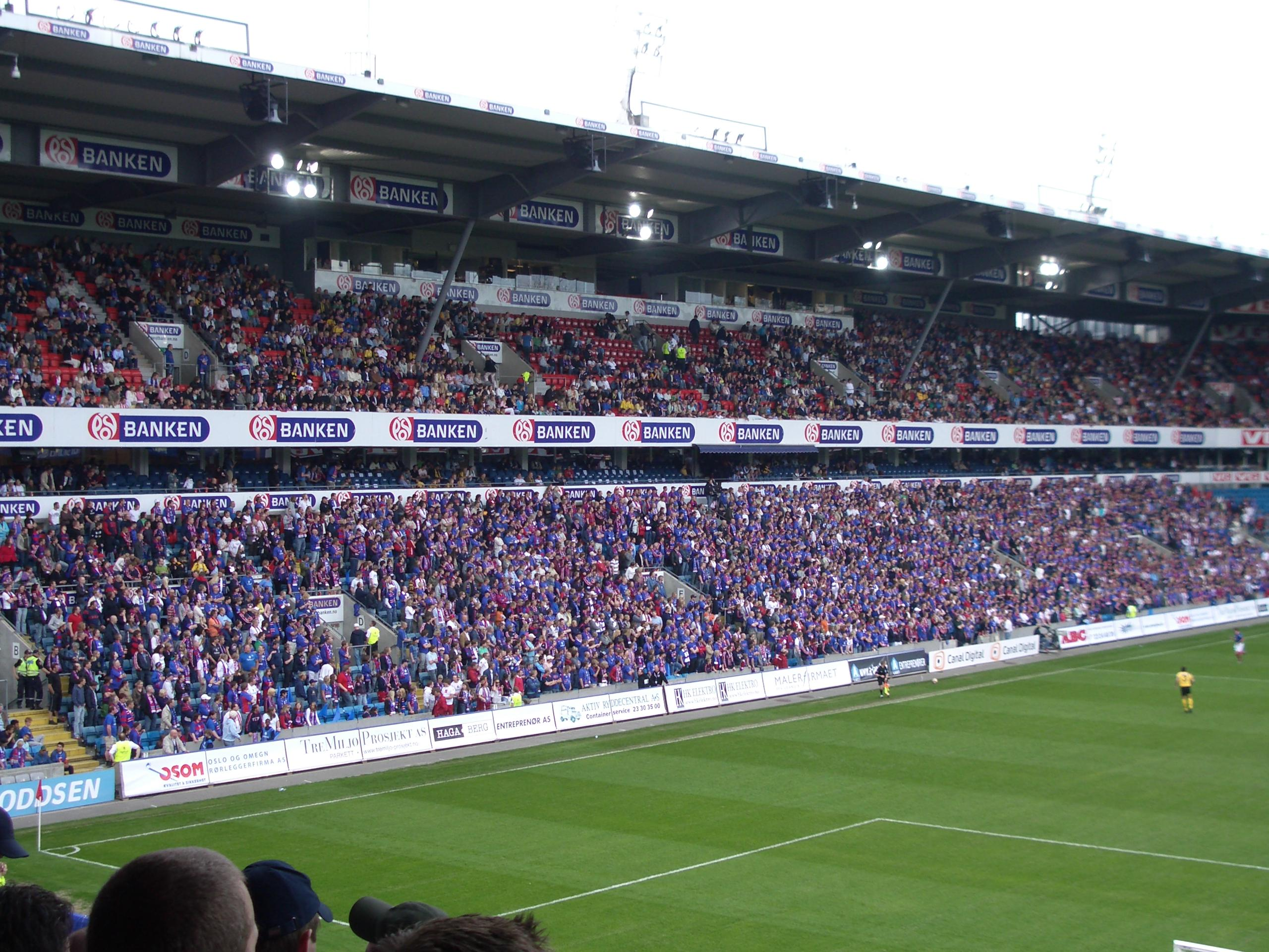 Ullevaal Stadion in Oslo, Norway. The Postbanken stand, known as "The West Bank"